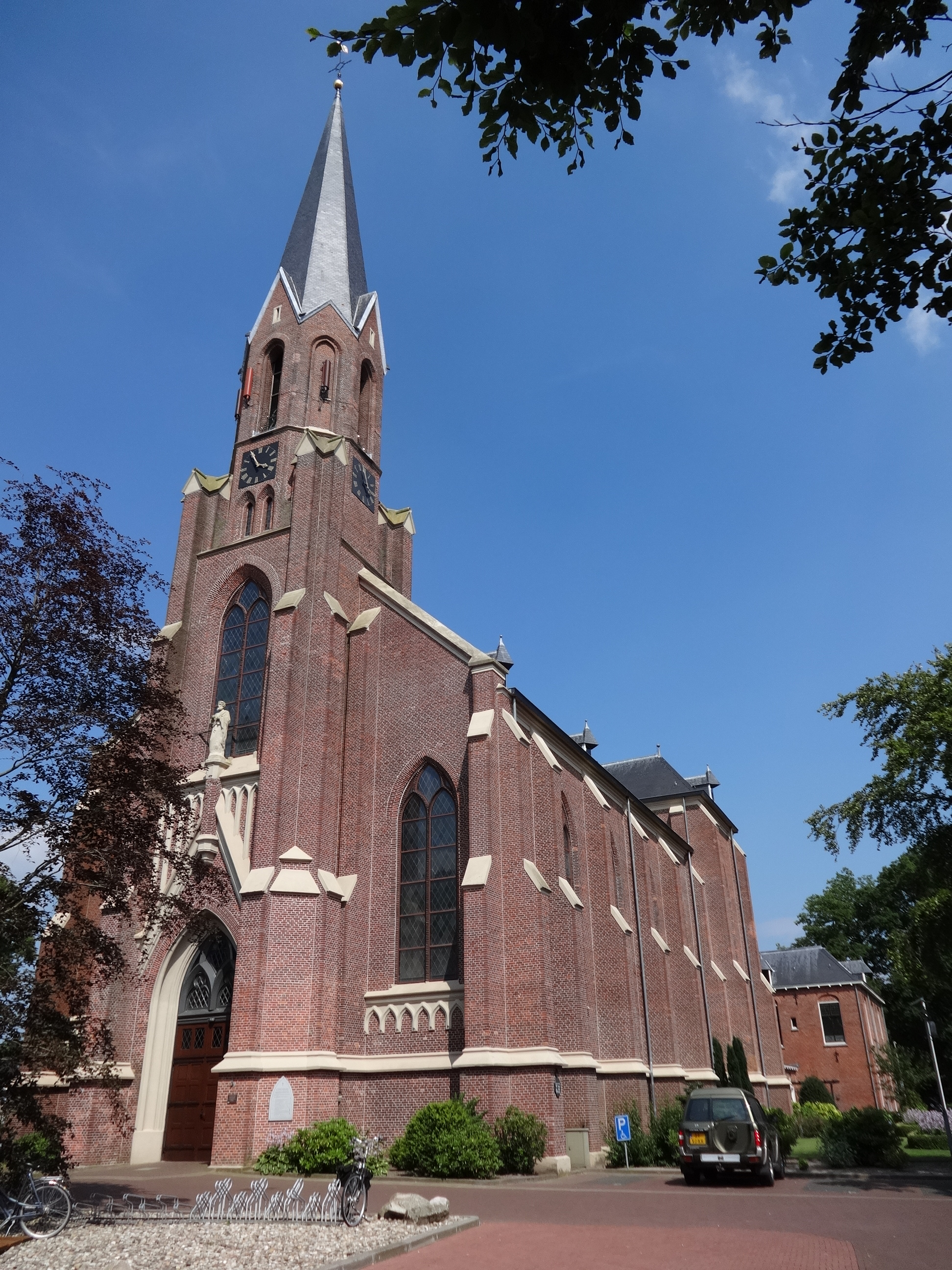 The St.Joseph and Pancratius Church of Vasse in the municipality of Tubbergen, Overijssel, The Netherlands.